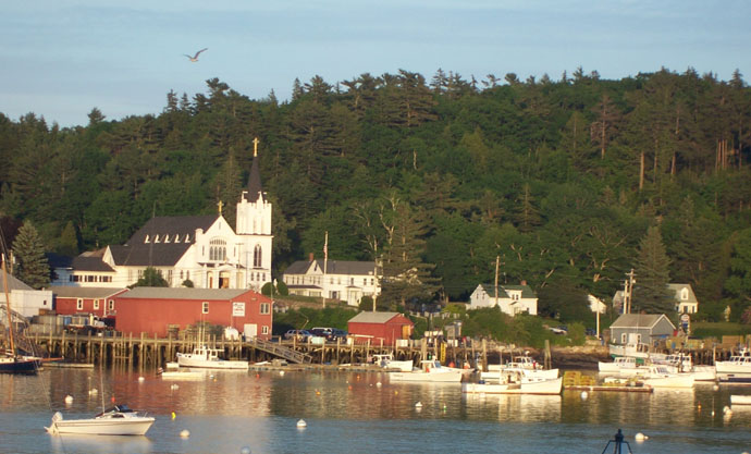 Boothbay Harbor, Maine before sunset, summer 2007.